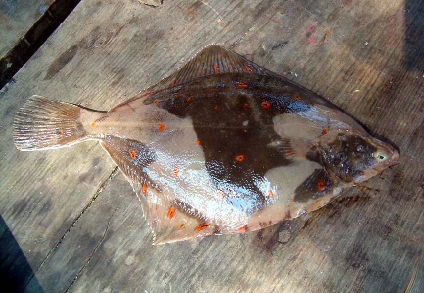 Flounder fish from Baltic Sea near Poland